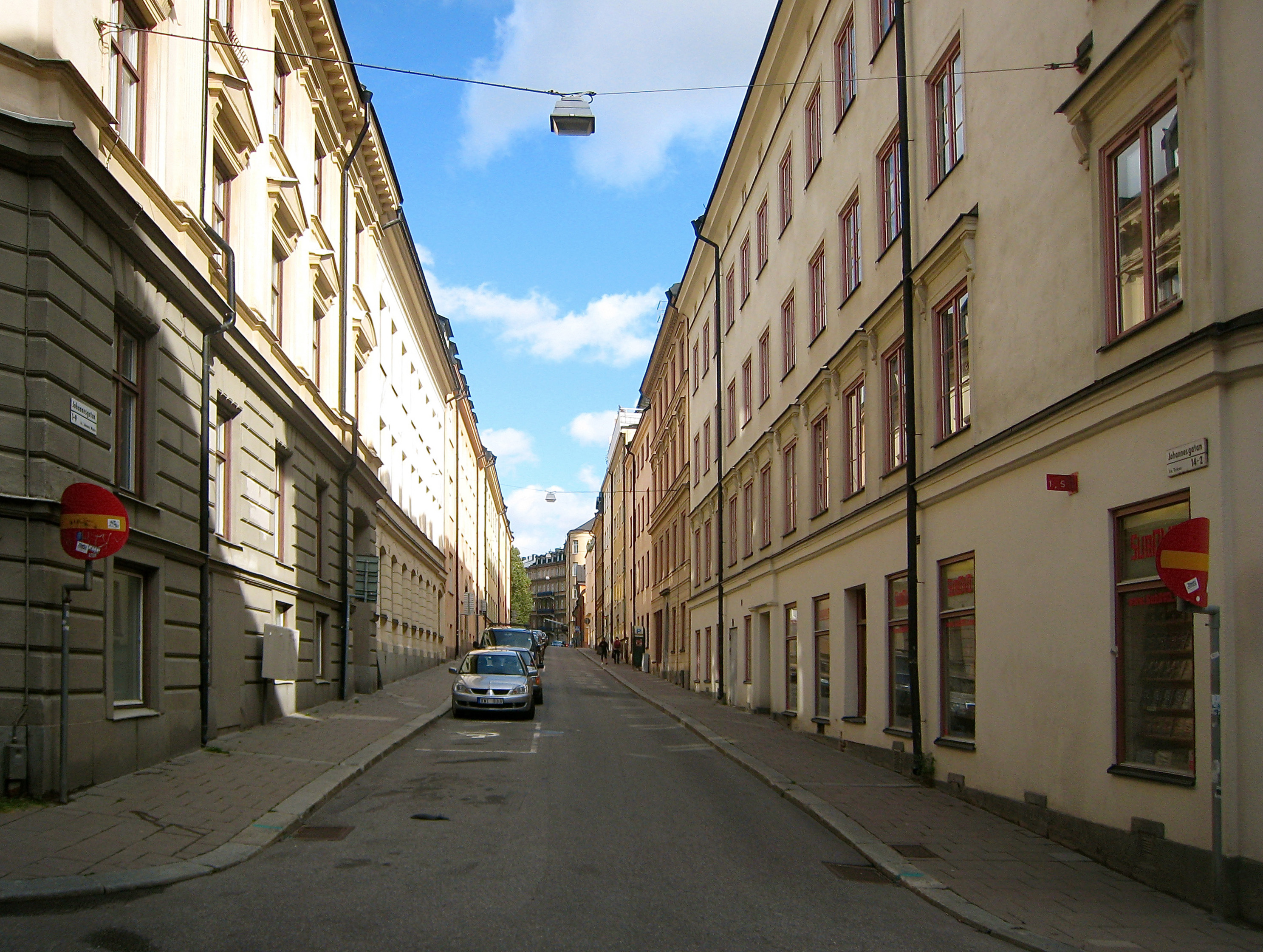 Johannesgatan